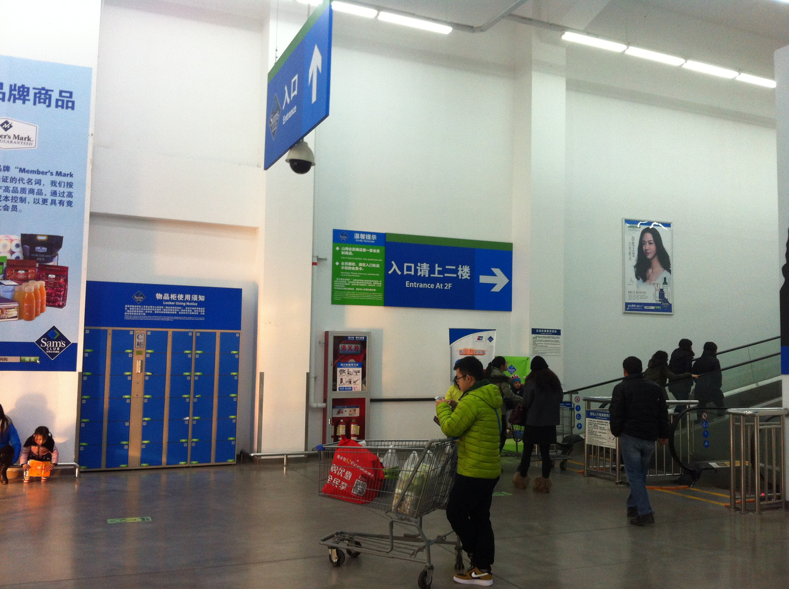 Sam's Club in Suzhou中文（中国大陆）: 山姆会员商店（苏州店）的货架